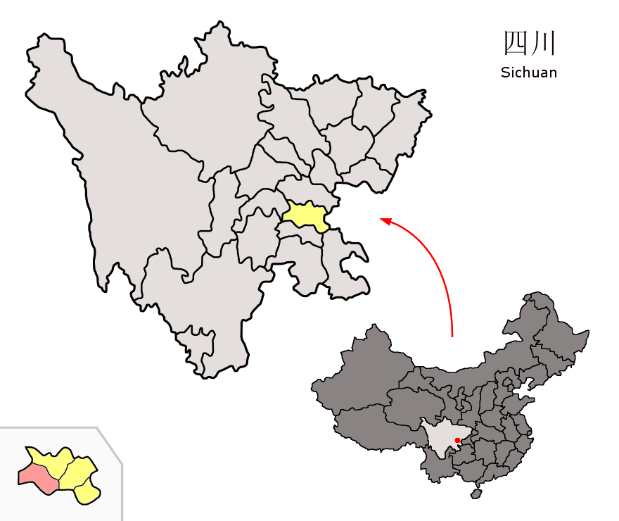 Location of Weiyuan County (pink) and Neijiang Prefecture (yellow) within Sichuan province of China Map drawn in october 2007 using various sources, mainly : Sichuan province administrative regions GIS data: 1:1M, County level, 1990 Sichuan Counties map from